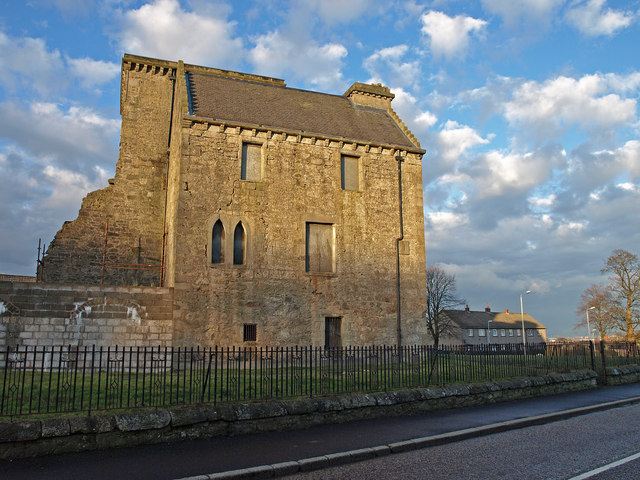 Johnstone Castle Viewed from the south.